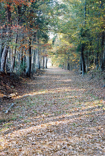 Island Ford Road at Ninety Six National Historic Site. by Christina Croft